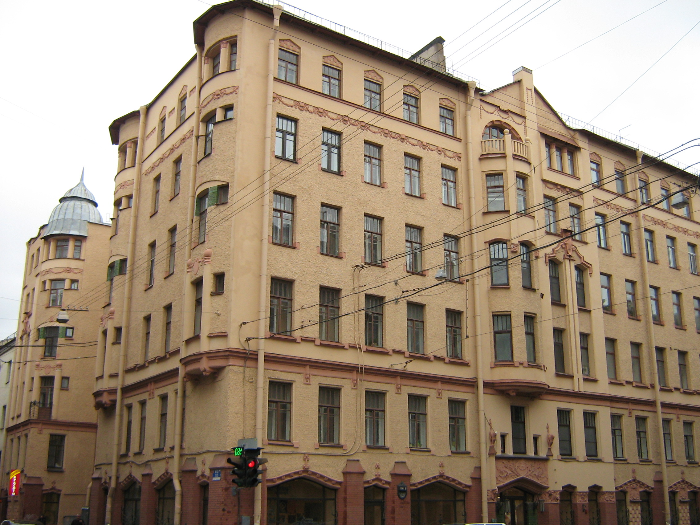 66, Maly Prospect P.S. (Small avenue of the Petrograd side) / 32, Ulitsa Lenina (Lenin street), Saint-Petersburg, Russia. Alyushinsky house. Architect Alexander Lishnevsky, 1907–1908.